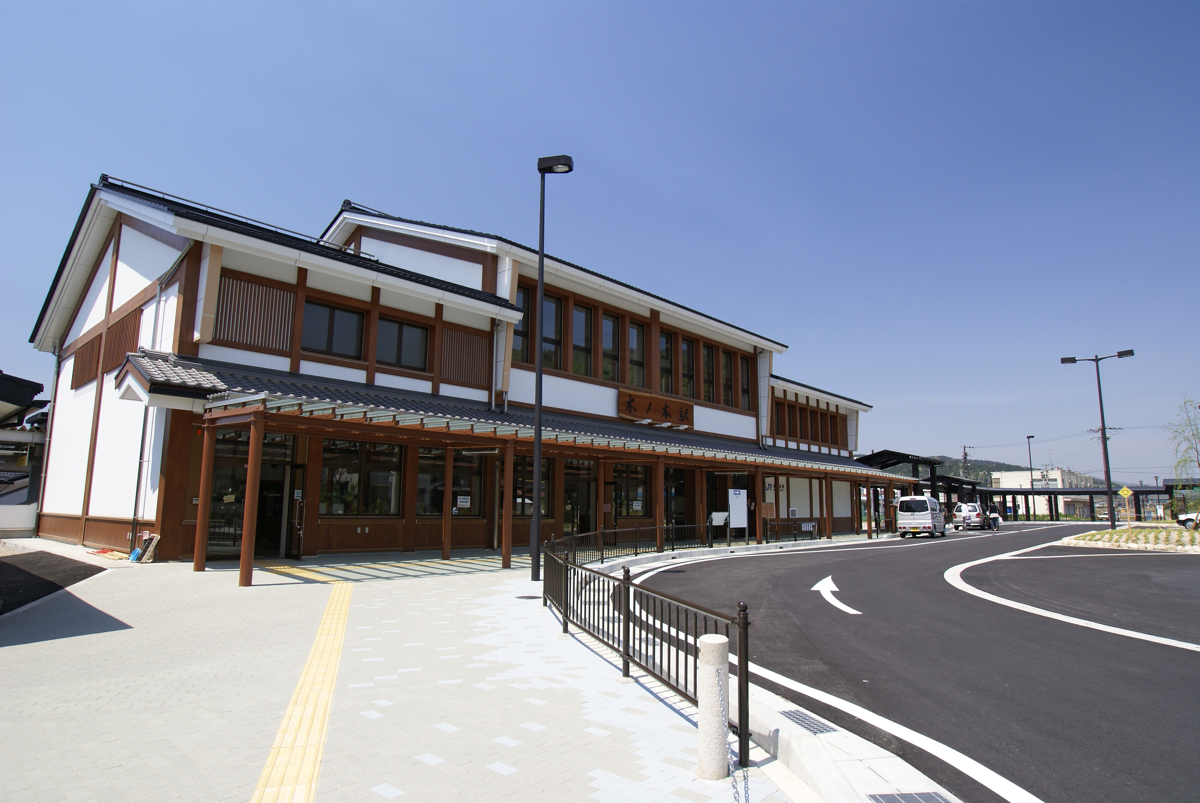 Kinomoto Station in Kinomoto, Shiga, Japan